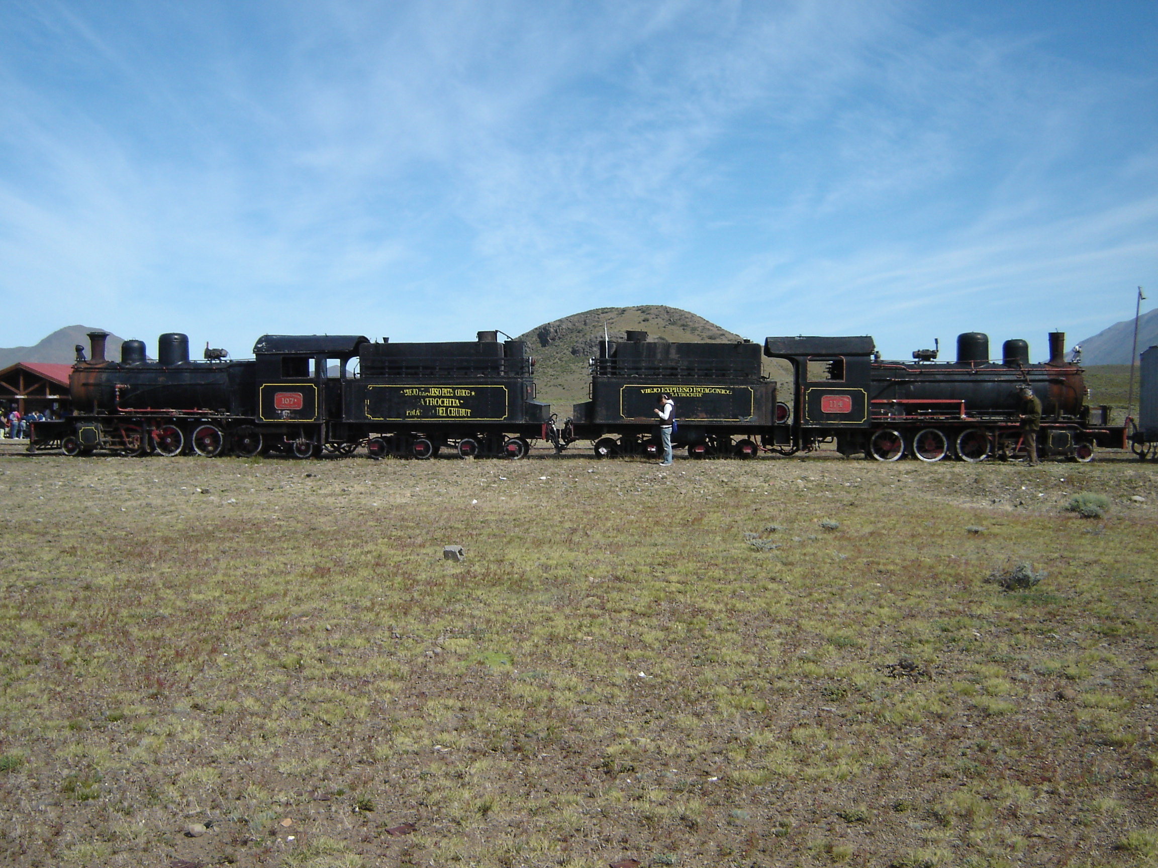 Old Patagonian Express "La Trochita", taken in NAHUEL PAN ESTACION FCGR, U9200XAH, Chubut, Argentina. Province: ISO 3166-2: AR-U. FIPS 10-4: AR04. INDEC: 26. Department: Futaleufú Department. DD: 42°57′00″S 71°11′00″W / 42.95°S 71.1833333°W DMS: 42°57′00″S 71°11′00″W / 42.95°S 71.1833333°W